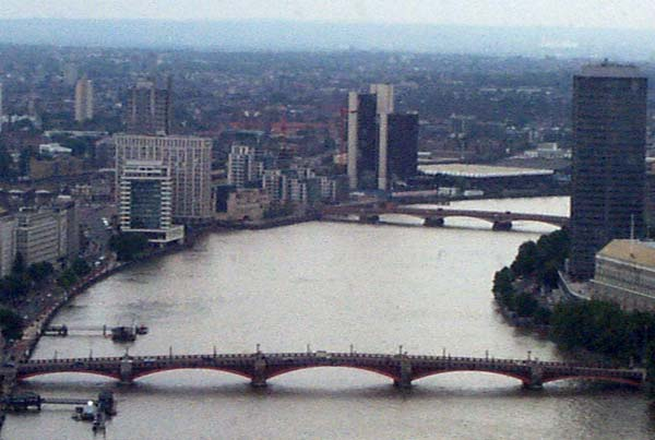 River Thames looking south from London Eye